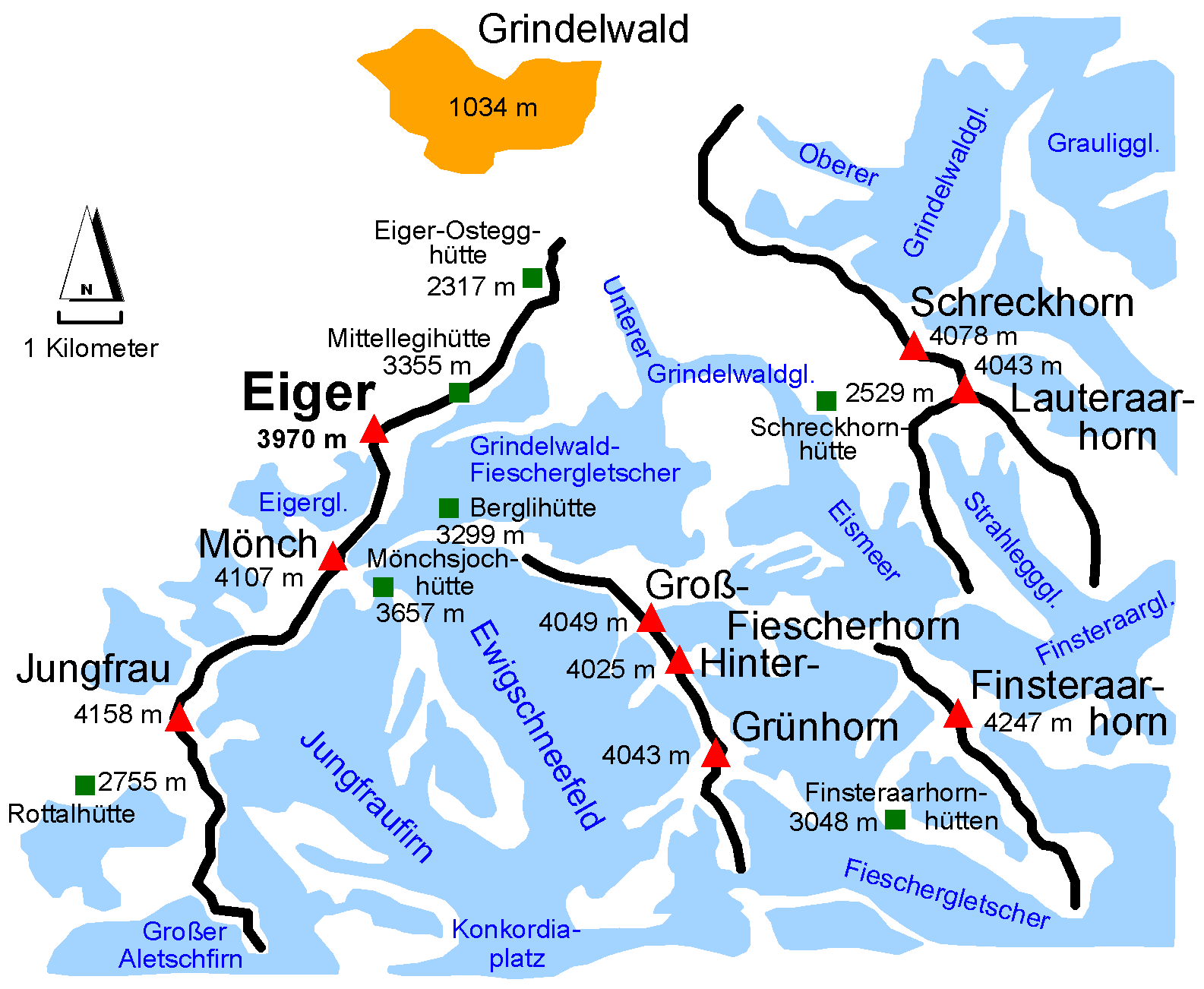 Map of the environment of the Eiger in Switzerland. (Red symbol=summit, green symbol=mountain hut, blue areas=glacier)